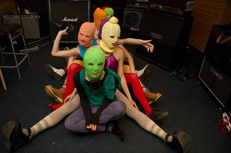 Pussy Riot - Denis Bochkarev.